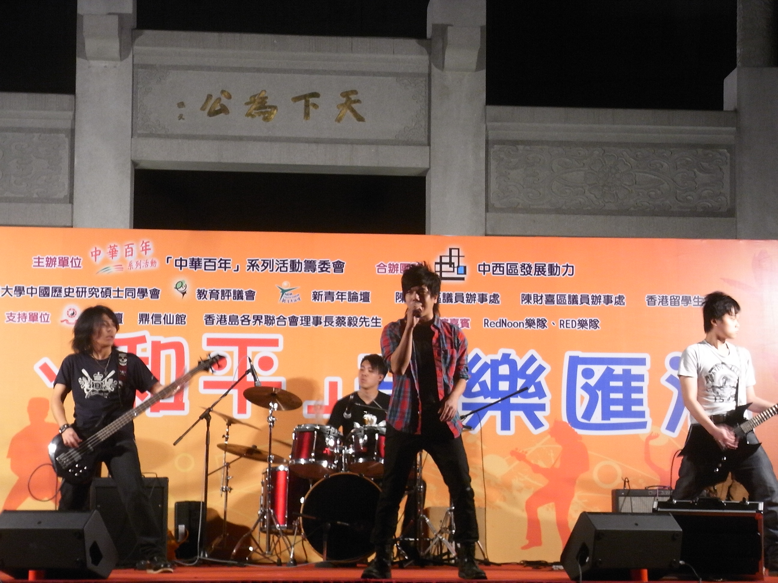 RedNoon at work on stage in Dr Sun Yat Sen Memorial Park, Sai Ying Pun, Hong Kong